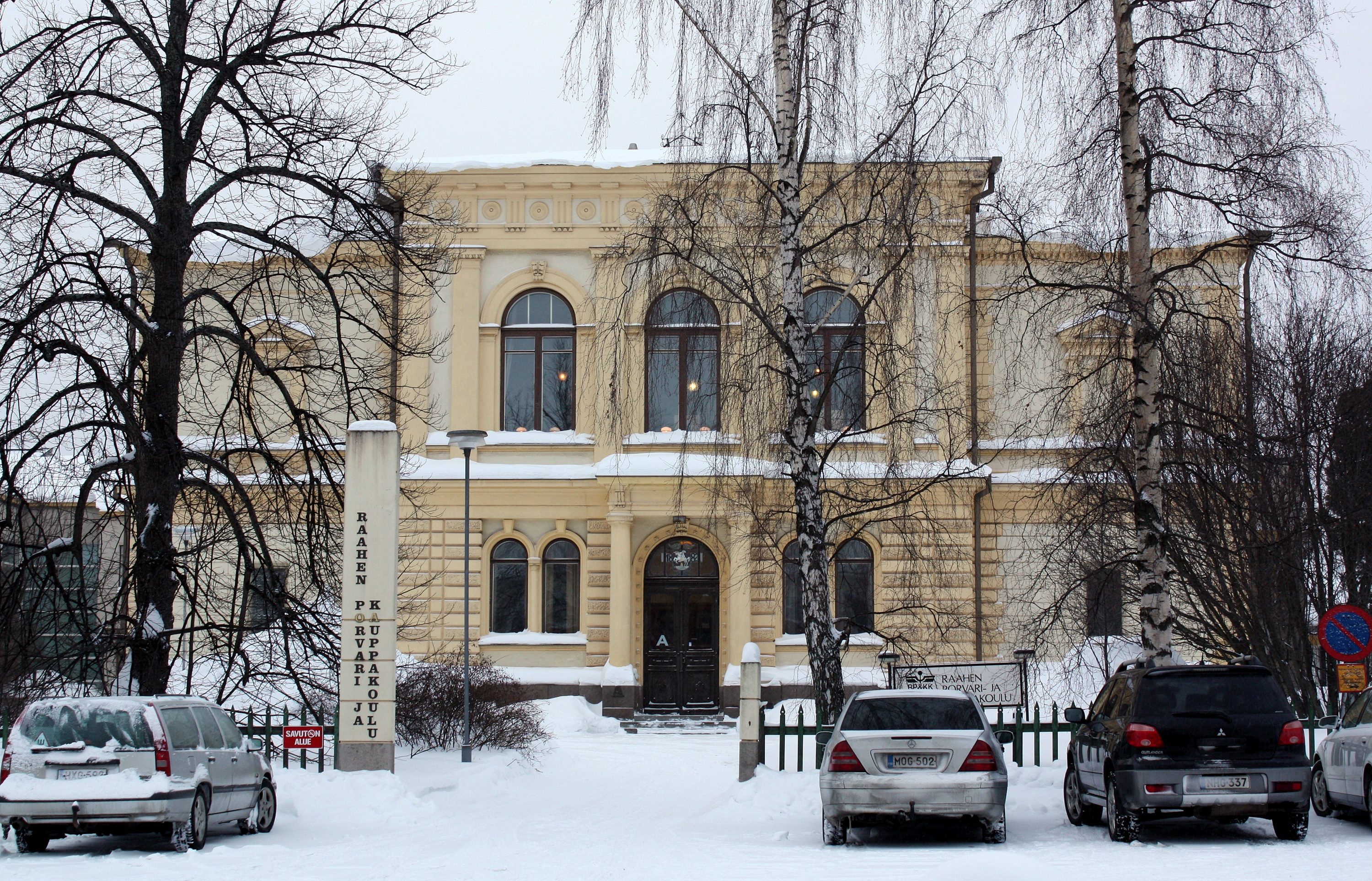 Raahen Porvari- ja Kauppakoulu in Raahe, Finland.